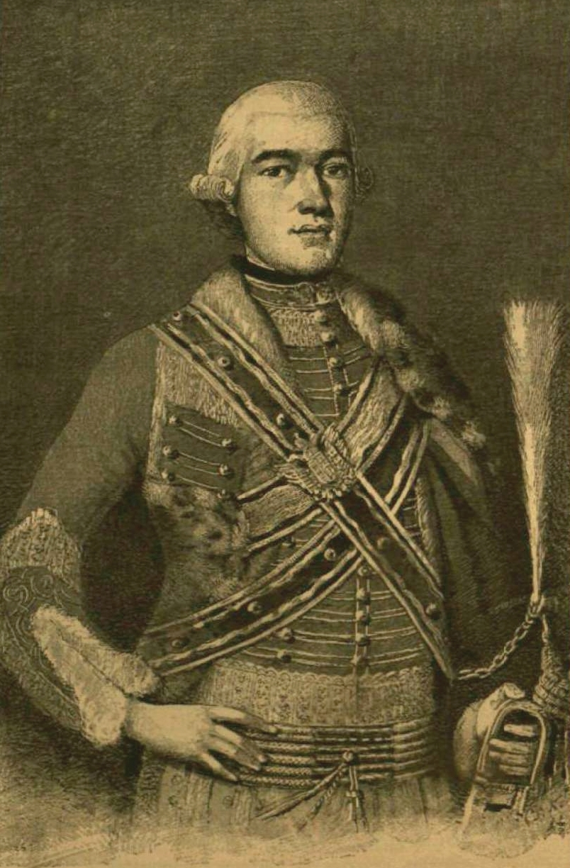 György Bessenyei.